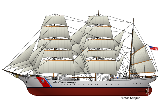 Drawing of the USA sailing ship Eagle